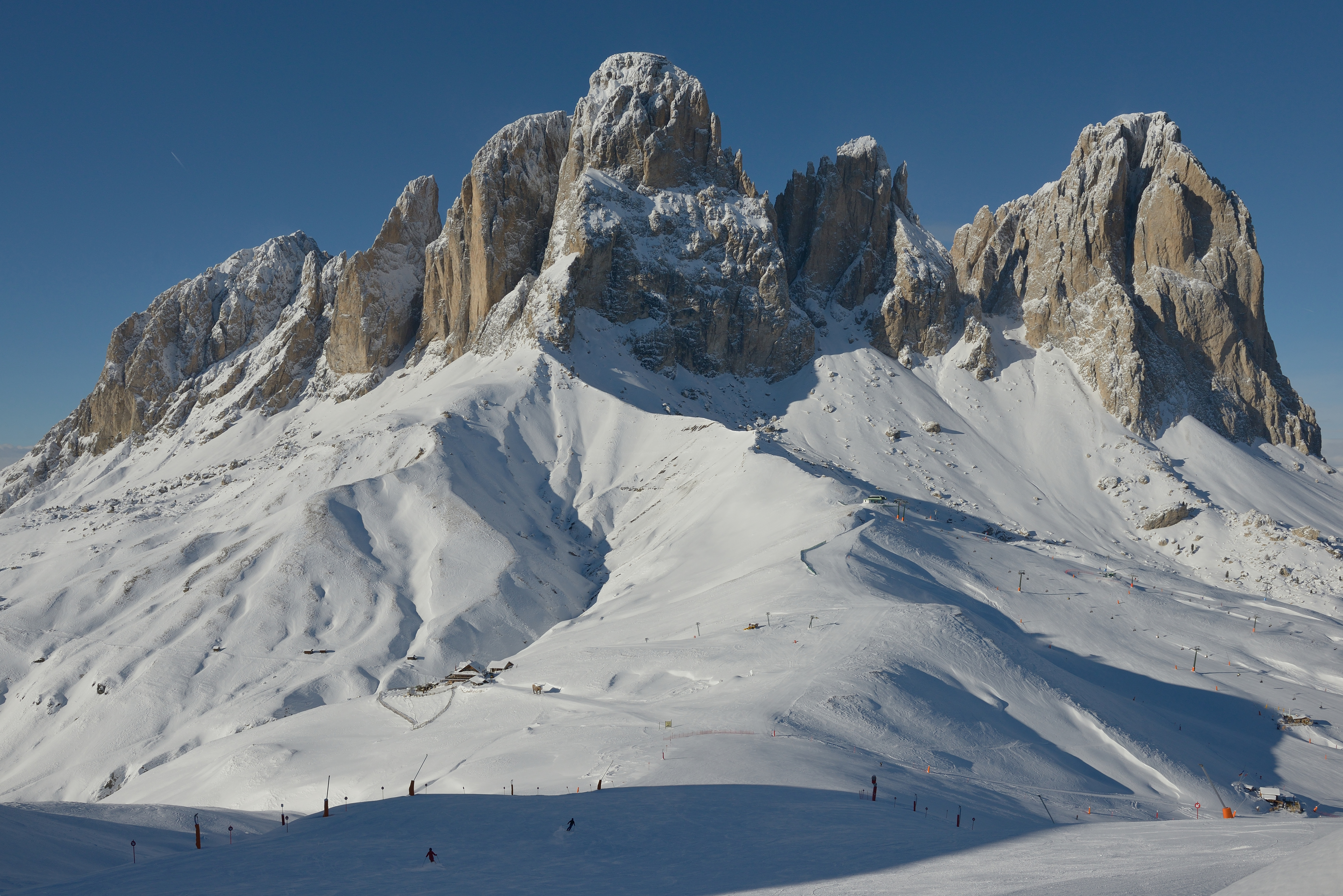 The Langkofel Group from the Sella pass. From left to right the Plattkofel, Zahnkofel, Grohmann Peak, the Fünffinger Peak, the Langkofelscharte and the Langkofeleck